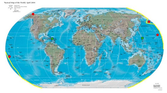 CIA World Factbook map of the world -- dots added to show points. Line drawn to show the International Date Line.